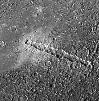 A chain of craters Enki Catena on Jupiter's moon Ganymede, probably caused by the impact of a fragmented comet. The picture covers an area about 120 miles wide. This chain of 13 craters probably formed by a comet which was pulled into pieces by Jupiter's gravity as it passed too close to the planet. Soon after this breakup, the 13 fragments crashed onto Ganymede in rapid succession. The Enki craters formed across the sharp boundary between areas of bright terrain and dark terrain, delimited by a thin trough running diagonally across the center of this image. The ejecta deposit surrounding the craters appears very bright on the bright terrain. Even though all the craters formed nearly simultaneously, it is difficult to discern any ejecta deposit on the dark terrain. This may be because the impacts excavated and mixed dark material into the ejecta and the resulting mix is not apparent against the dark background. North is to the bottom of the picture and the sun illuminates the surface from the left. The image, centered at 39 degrees latitude and 13 degrees longitude, covers an area approximately 214 by 217 kilometers. The resolution is 545 meters per picture element. The image was taken on April 5, 1997 at 6 hours, 12 minutes, 22 seconds Universal Time at a range of 27282 kilometers by the Solid State Imaging (SSI) system on NASA's Galileo spacecraft. The Jet Propulsion Laboratory, Pasadena, CA manages the Galileo mission for NASA's Office of Space Science, Washington, DC.